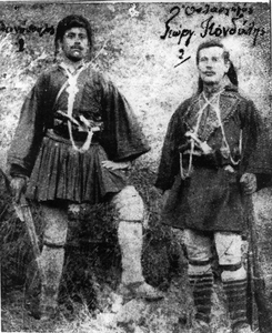 Kostas Thanopoulos and Georgios Kondylis as a Macedonian fighters